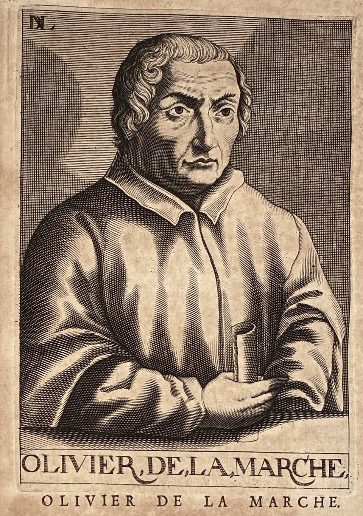 Half-length portrait of Olivier de La Marche, historian, facing to the right. Engraved by Nicolas de Larmessin. Isaac Bullart. Académie Des Sciences Et Des Arts. - Amsterdam: Elzevier, 1682